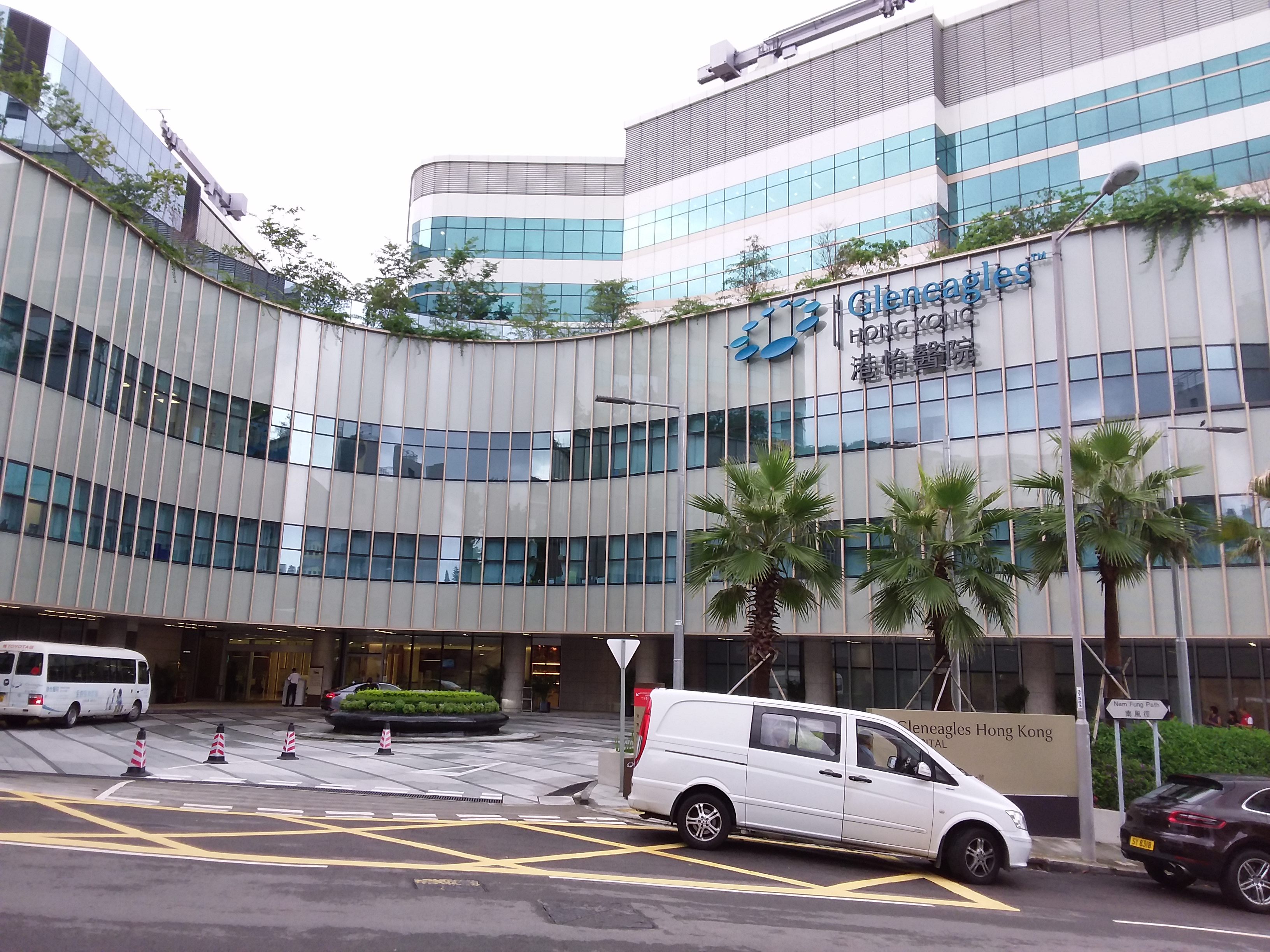 HK WCH Wong Chuk Hang Nam Fung Road Path 港怡醫院 Gleneagles Hong Kong Hospital August 2018